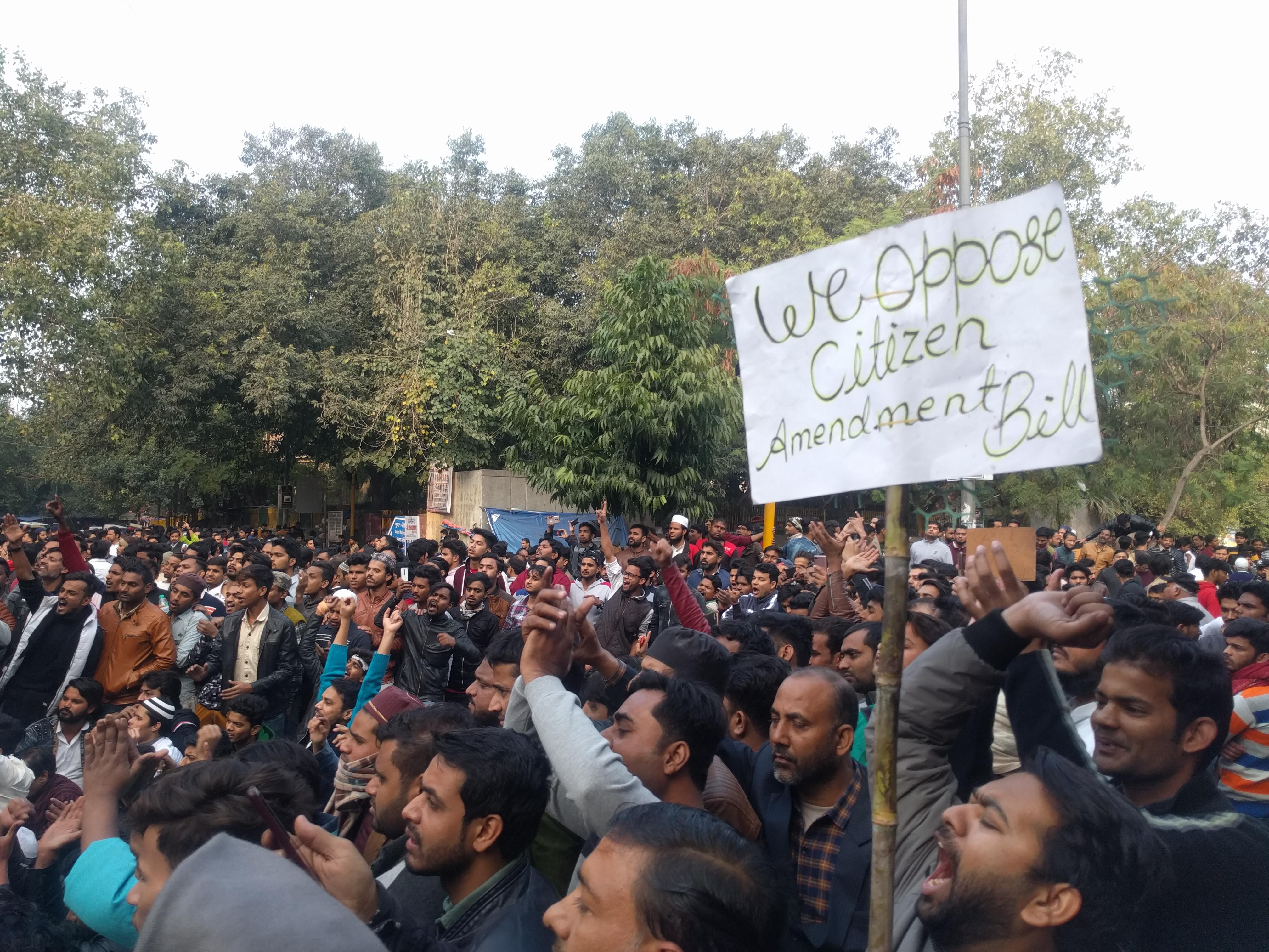 Anti CAA NRC protestors in New Delhi. JMI students and locals.